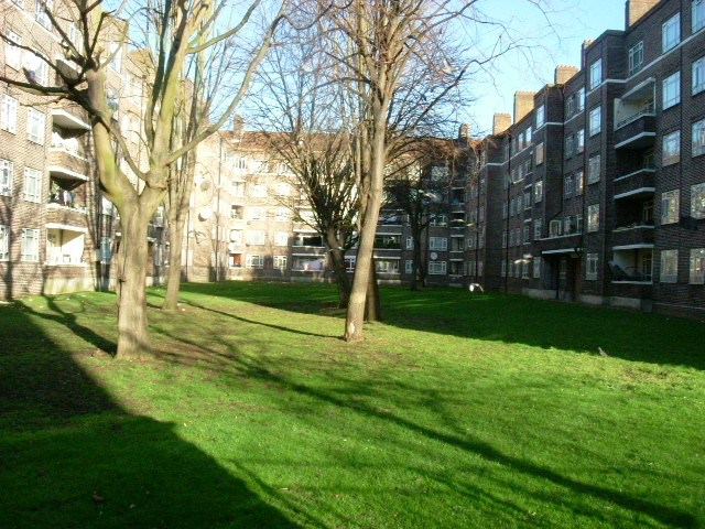 Champlain House, Australia Road, White City Estate, W12 Looking into the courtyard of the U-shaped Champlain House on the White City Estate.